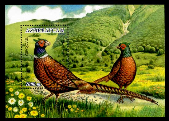 Stamp of Azerbaijan